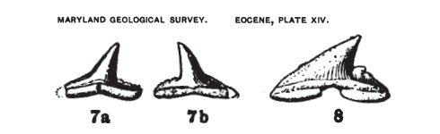 Tooth of Sphyrna prisca and Galeocerdo latidens